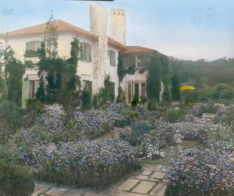 Title ["Barberrys," Nelson Doubleday house, Mill Neck, New York. Flower garden] Contributor Names Johnston, Frances Benjamin, 1864-1952, photographer Created / Published [1921] Subject Headings - Gardens--New York (State)--Mill Neck--1920-1930 - Flowers--New York (State)--Mill Neck--1920-1930 - Houses--New York (State)--Mill Neck--1920-1930 Format Headings Lantern slides--Hand-colored--1920-1930. Notes - Site History. House Architecture: Harrie Thomas Lindberg, built 1916. Landscape: Percival Gallagher, Olmsted Brothers, 1919-1924 and others. Other: House and garden on 7.5 acres. Today: House extant. - Title, date, and subject information provided by Sam Watters, 2011. - Forms part of: Garden and historic house lecture series in the Frances Benjamin Johnston Collection (Library of Congress). - Condition caution: corner broken, upper right. Medium 1 photograph : glass lantern slide, hand-colored ; 3.25 x 4 in. Call Number/Physical Location LC-J717-X109- 41 [P&P] Repository Library of Congress Prints and Photographs Division Washington, D.C. 20540 USA Digital Id ppmsca 16846 //hdl.loc.gov/loc.pnp/ppmsca.16846 Library of Congress Control Number 2008675746 Reproduction Number LC-DIG-ppmsca-16846 (digital file from original item) Rights Advisory No known restrictions on publication. Online Format image Description 1 photograph : glass lantern slide, hand-colored ; 3.25 x 4 in. LCCN Permalink